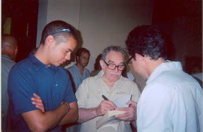 Garcia Marquez signing a copy of 100 Years of Solitude in Havana, Cuba